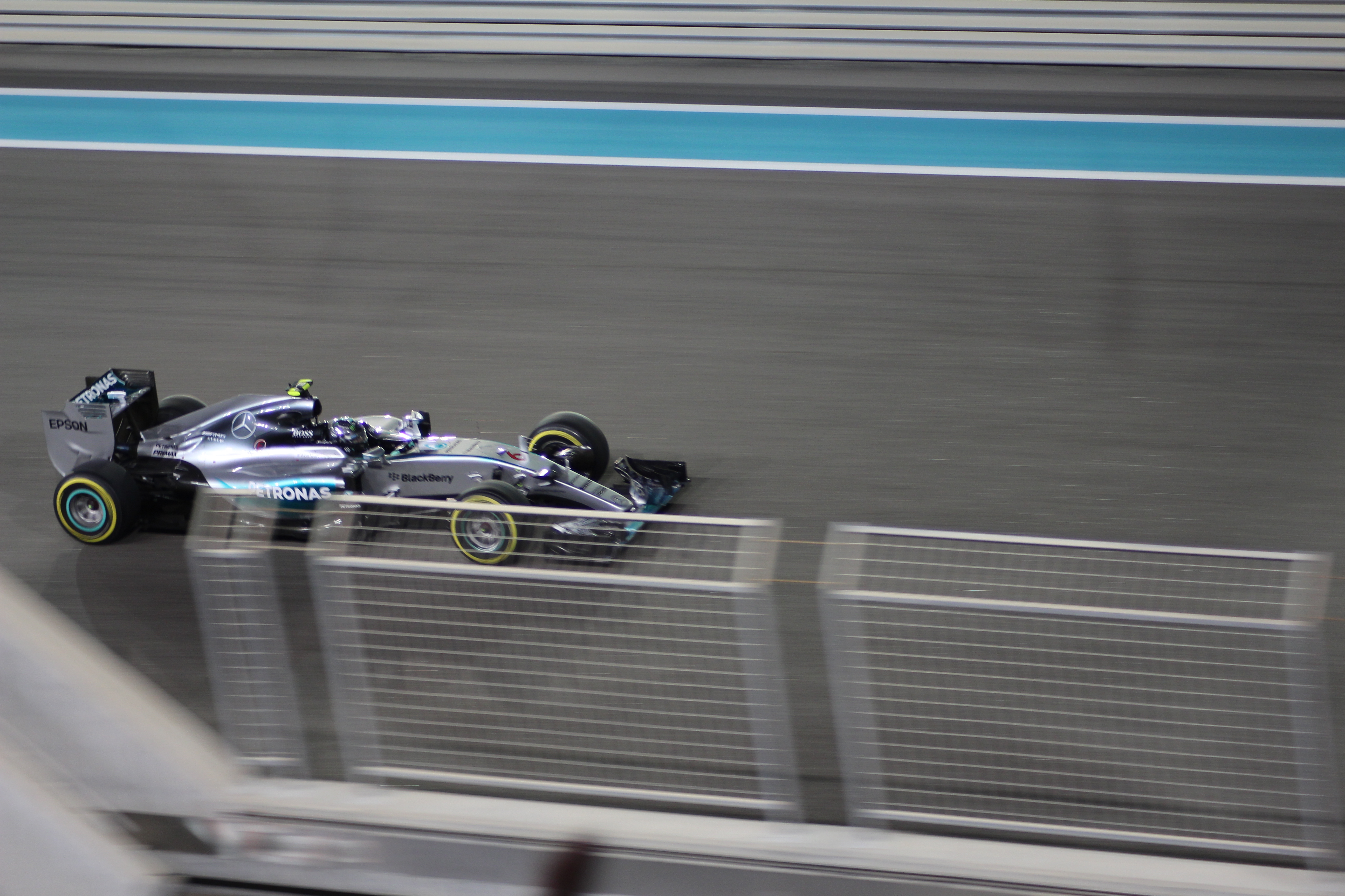 Nico Rosberg at the 2015 Abu Dhabi Grand Prix